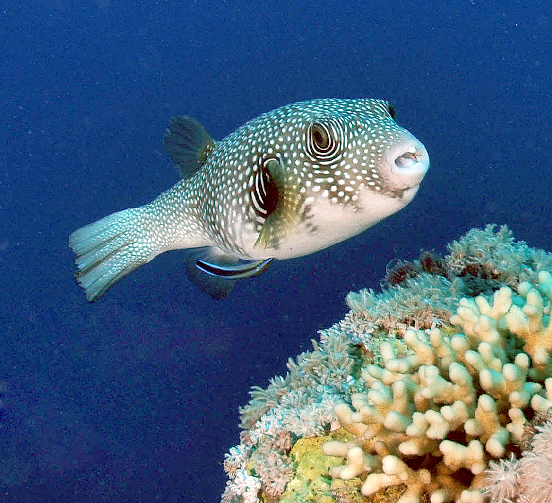 Whitespotetd puffer (Arothron hispdus_